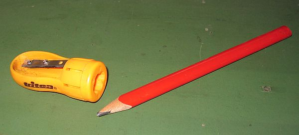 Pencil sharpener, with rotating collar to allow carpenters' flat pencils to be sharpened.